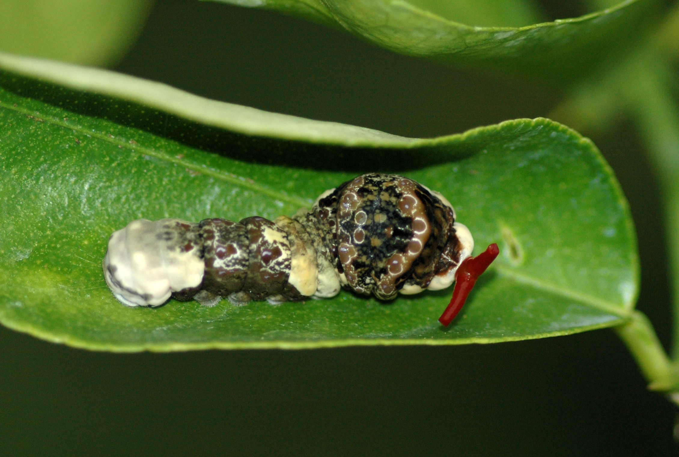 A giant swallowtail butterfly Papilio cresphontes larva showing defensive behavior, Florida